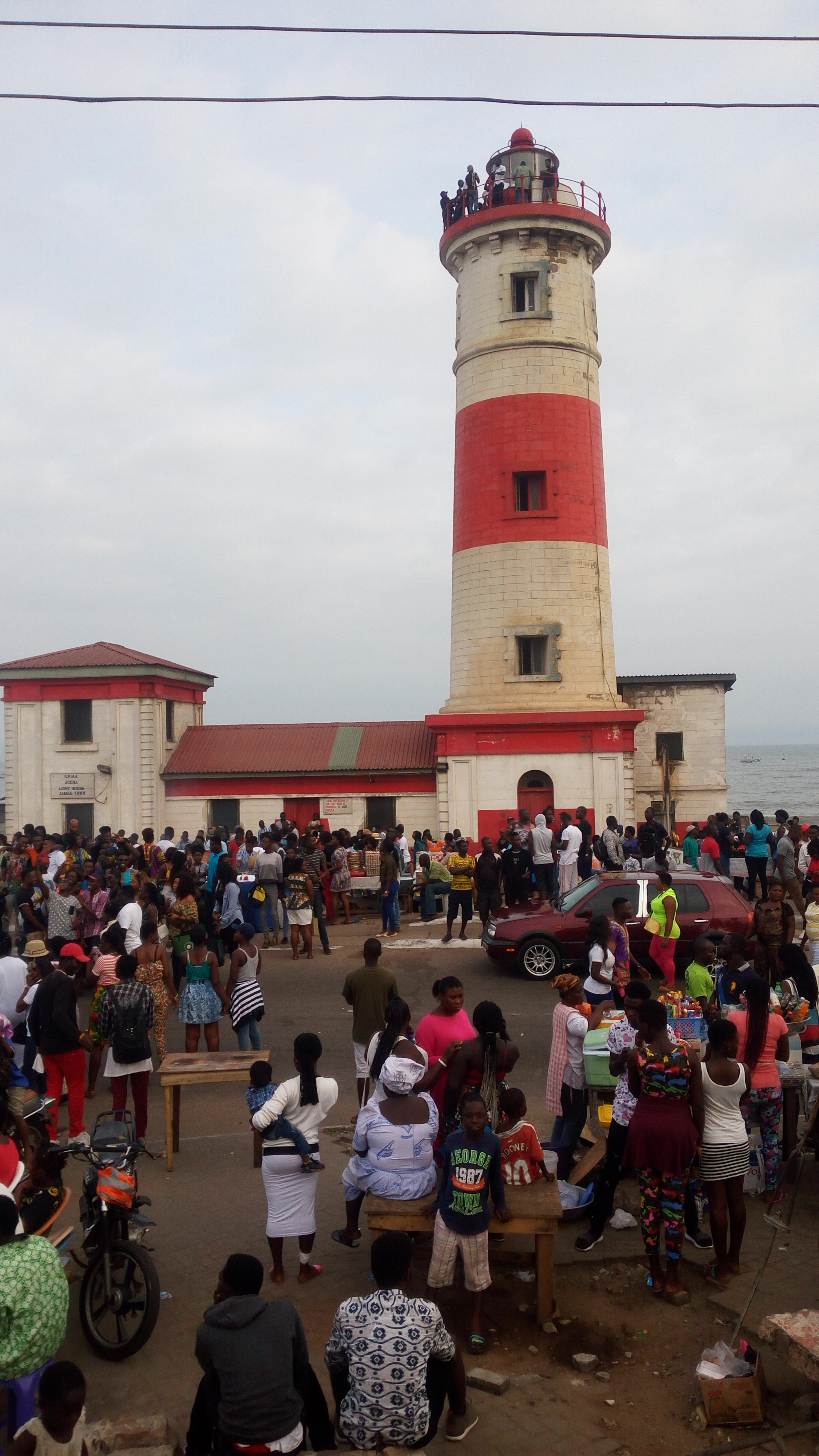 People around Jamestown Lighthouse tower during chalewote festival